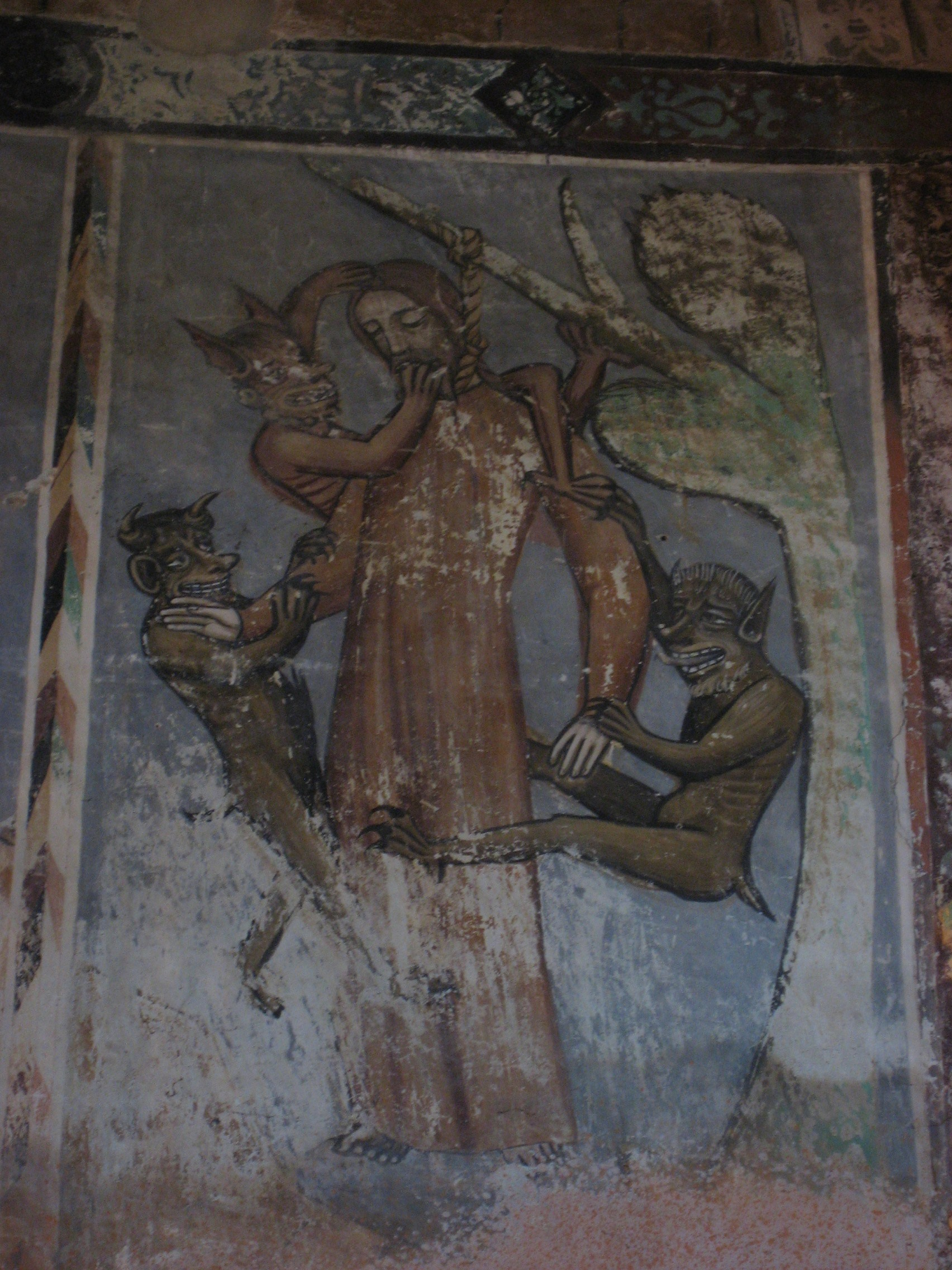 fresco at the Saxon fortified church in Mălâncrav (German: Malmkrog, Hungarian: Almakerék), the suicide of Judas